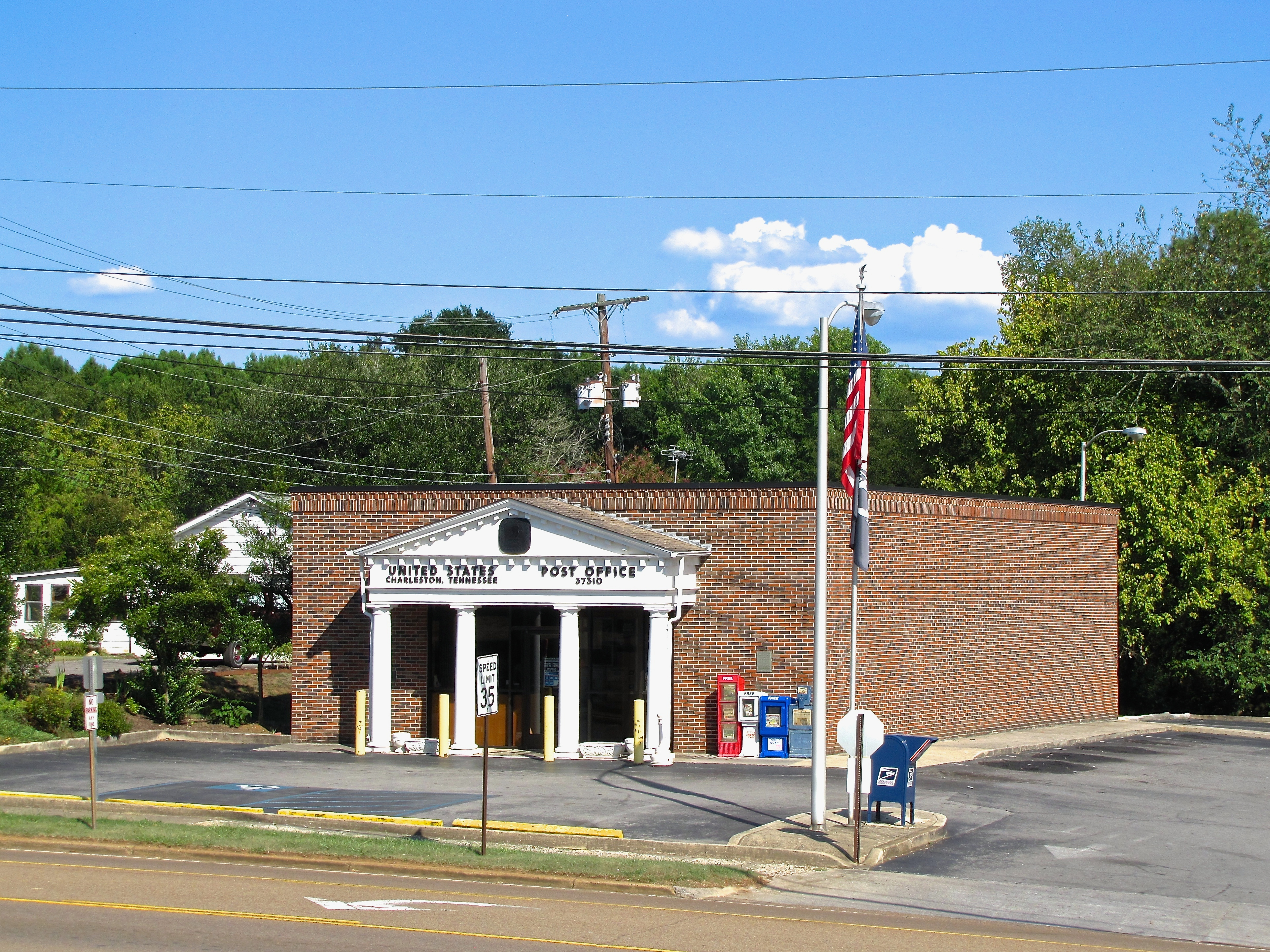 Post office in Charleston, Tennessee, United States.